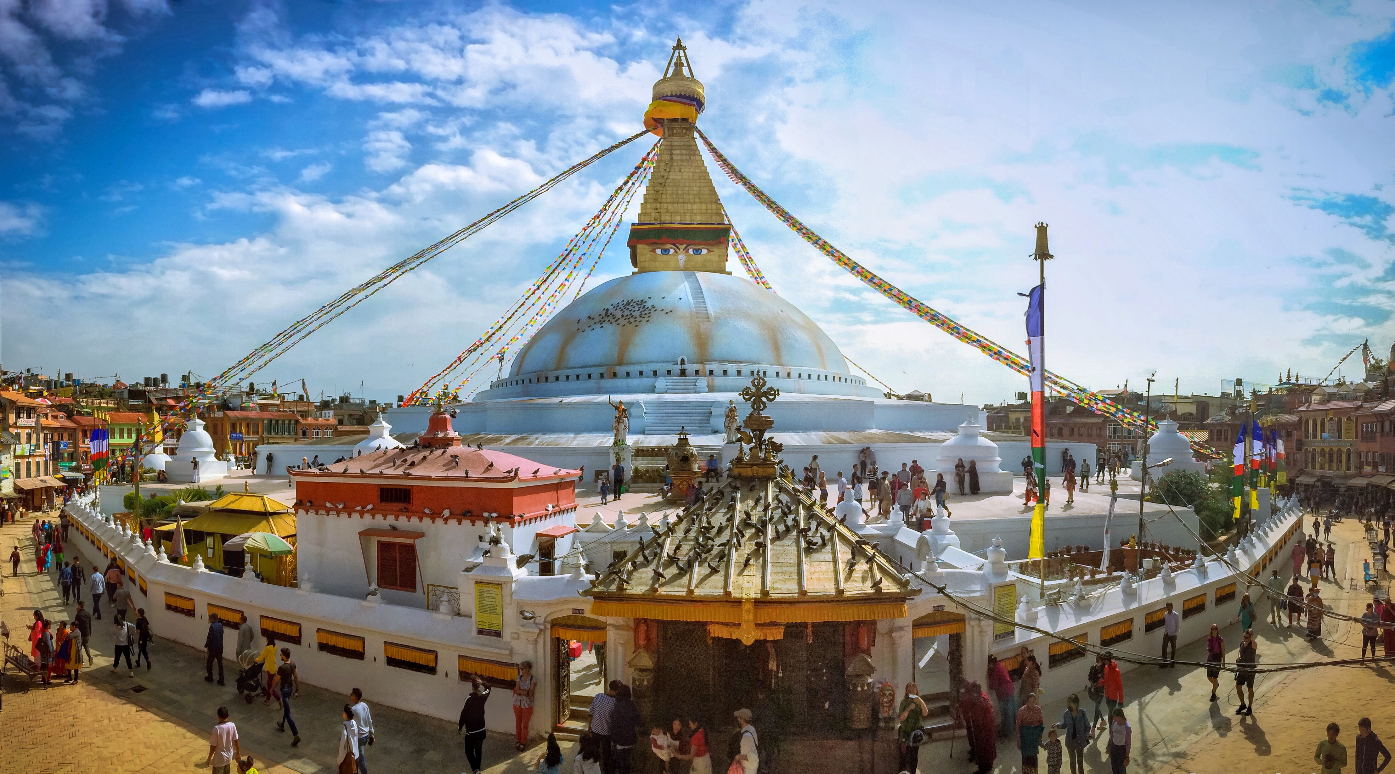 Boudhanath stupa is one of the greatest and biggest stupa of world which located in Kathmandu,Nepal. It is also listed in UNESCO world heritage site.It is one of the popular place for tourists in Kathmandu Valley.